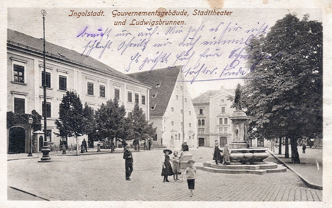 Ingolstadt, Gouvernementsplatz (now Rathausplatz) with governorate building, salt store, old city theatre and Emperor Louis IV Fountain (from left to right, all destroyed in 1945). Postcard.